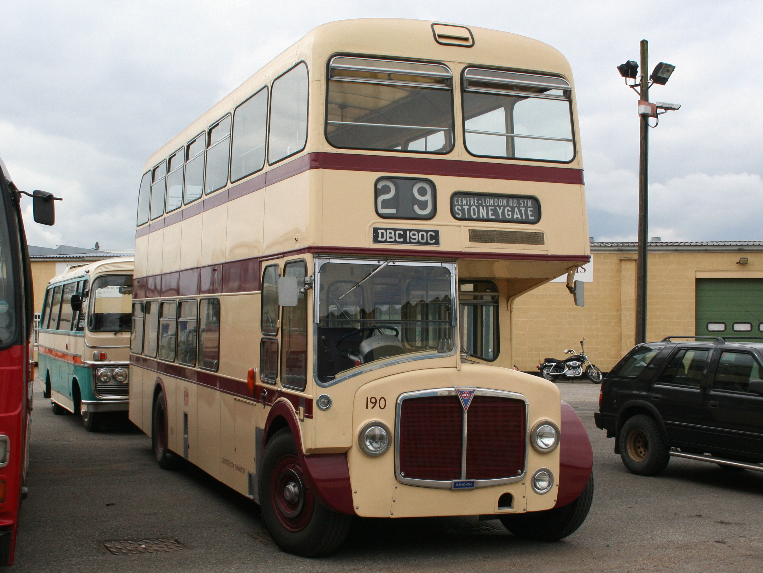 Preserved Leicester City Transport bus 190 (DBC 190C), a 1964 AEC Renown double decker bus.